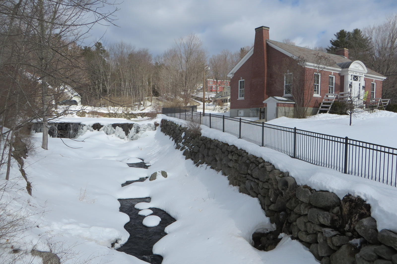 The Lane River in the town of Sutton, New Hampshire. Sutton Free Library is on the right.